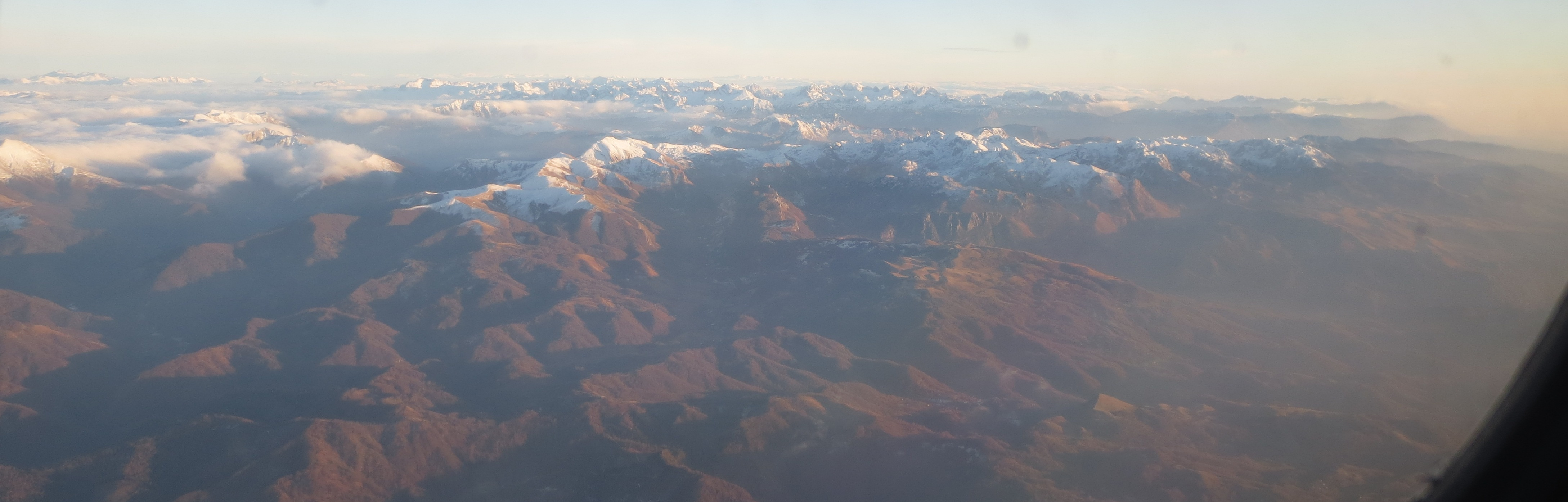 Aerial view over eastern Podgorica District, Montenegro. The view is from the west towards east, viewing the Bjelasica Mountains northeast of the Moraca Gorge. The massif in the left centre of the image is the Planinica (2,130 meters above sea level). In the background are the Prokletie mountains of Albania.